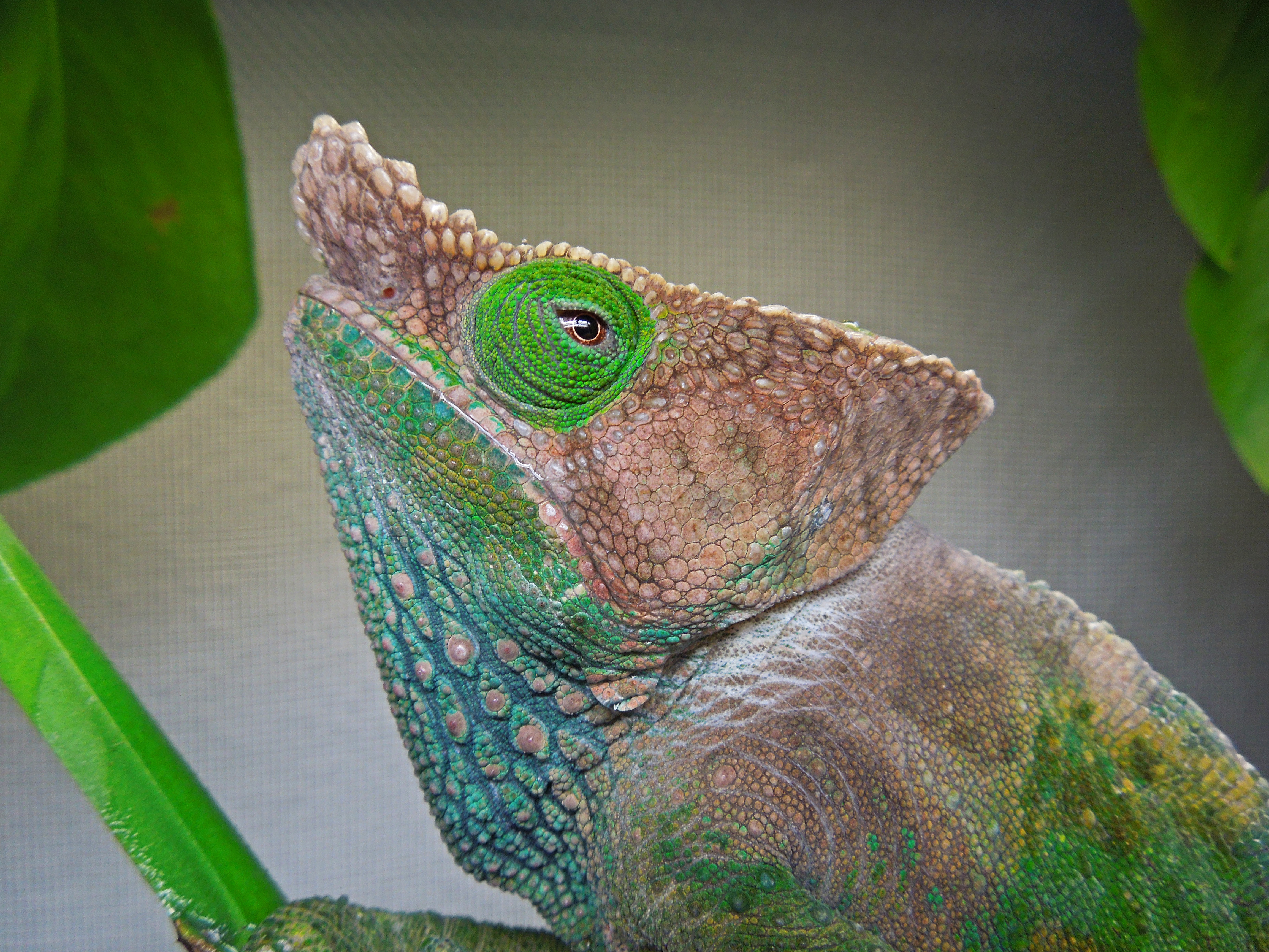 A photo of O'Shaughnessy's chameleon, Calumma oshaughnessy